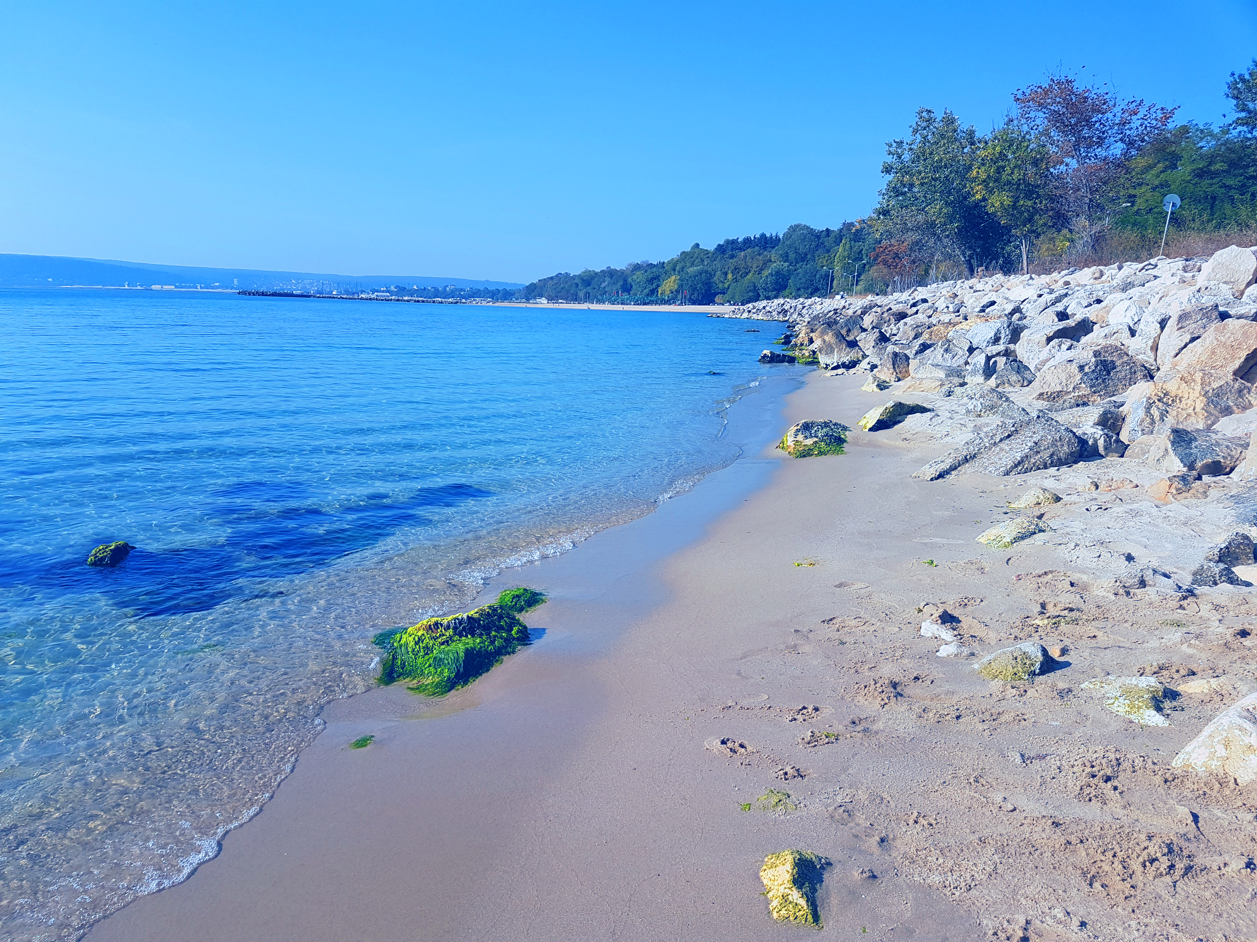 See Garden in Varna, Bulgaria